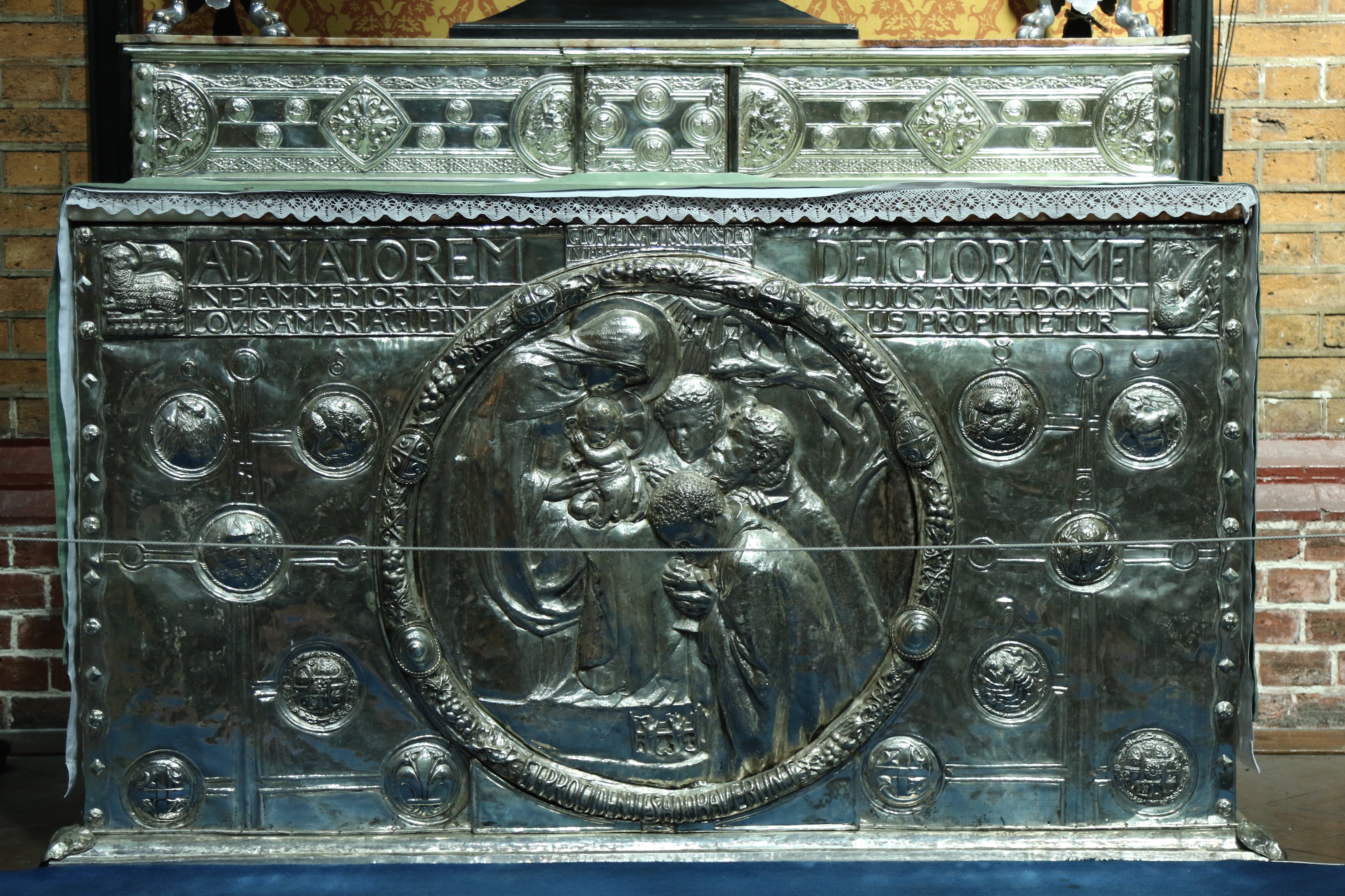 Silver altar by Henry Wilson